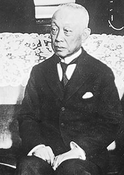 Kinmochi Saionji (西園寺公望, 1849-1940). Japanese Prime Minister 1906-08 and 1911-12.